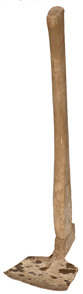 Short-handled flat hoe